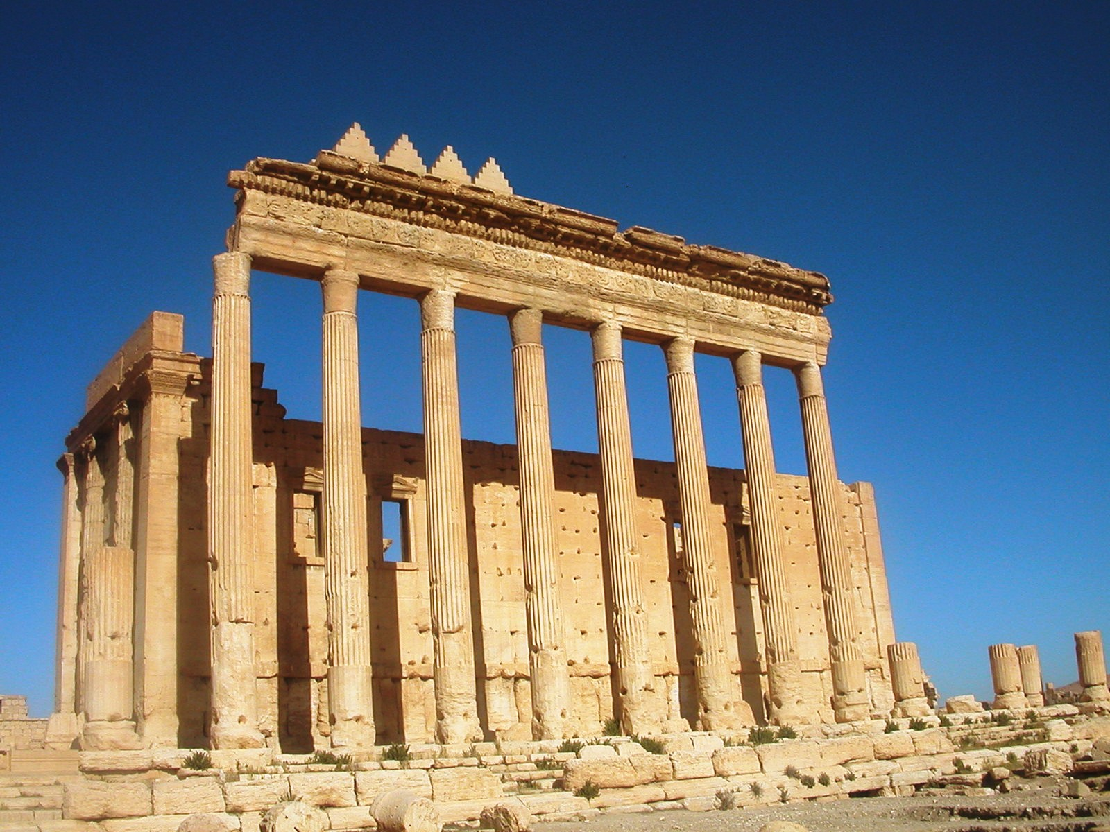 Temple of Bel in Palmyra (Syria)